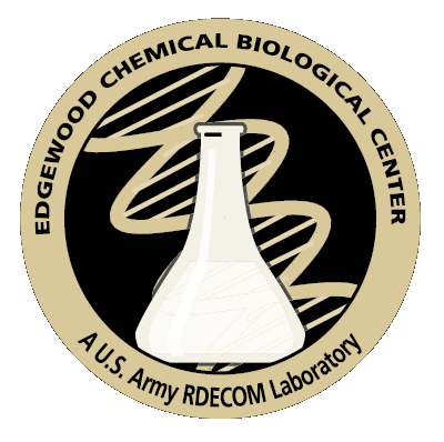 ECBC Logo